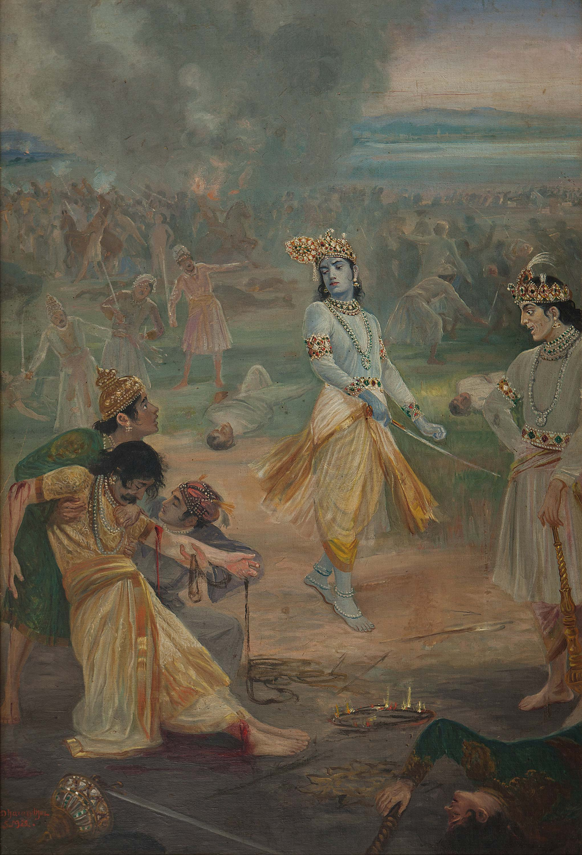 MV Dhurandhar, oil on canvas pasted on cardboard, 1922, 37×25 inches, on display at NGMA, Mumbai as part of the retrospective titled, ‘The Romantic Realist’